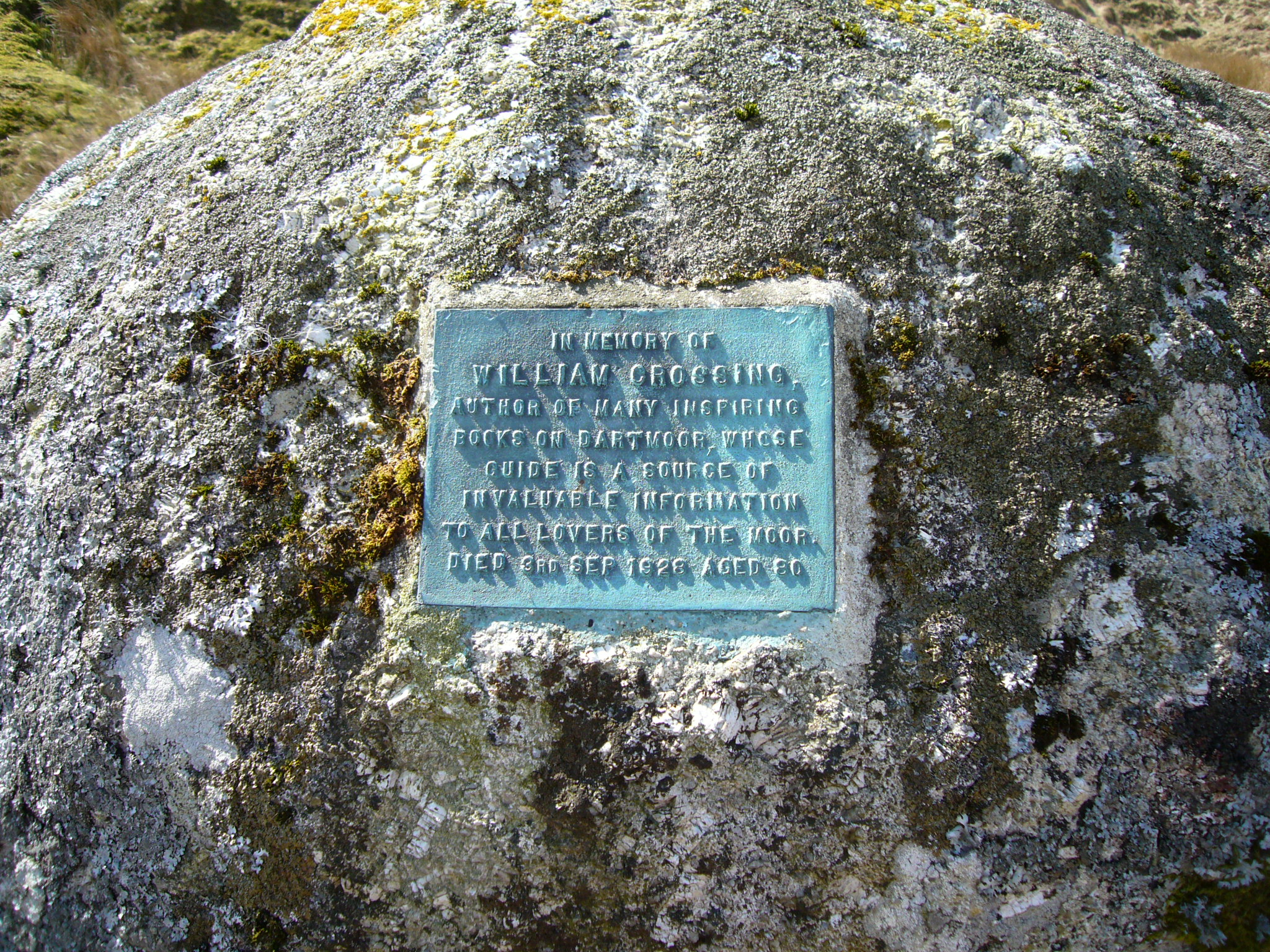 Memorial to William Crossing at Duck's Pool in central southern Dartmoor..